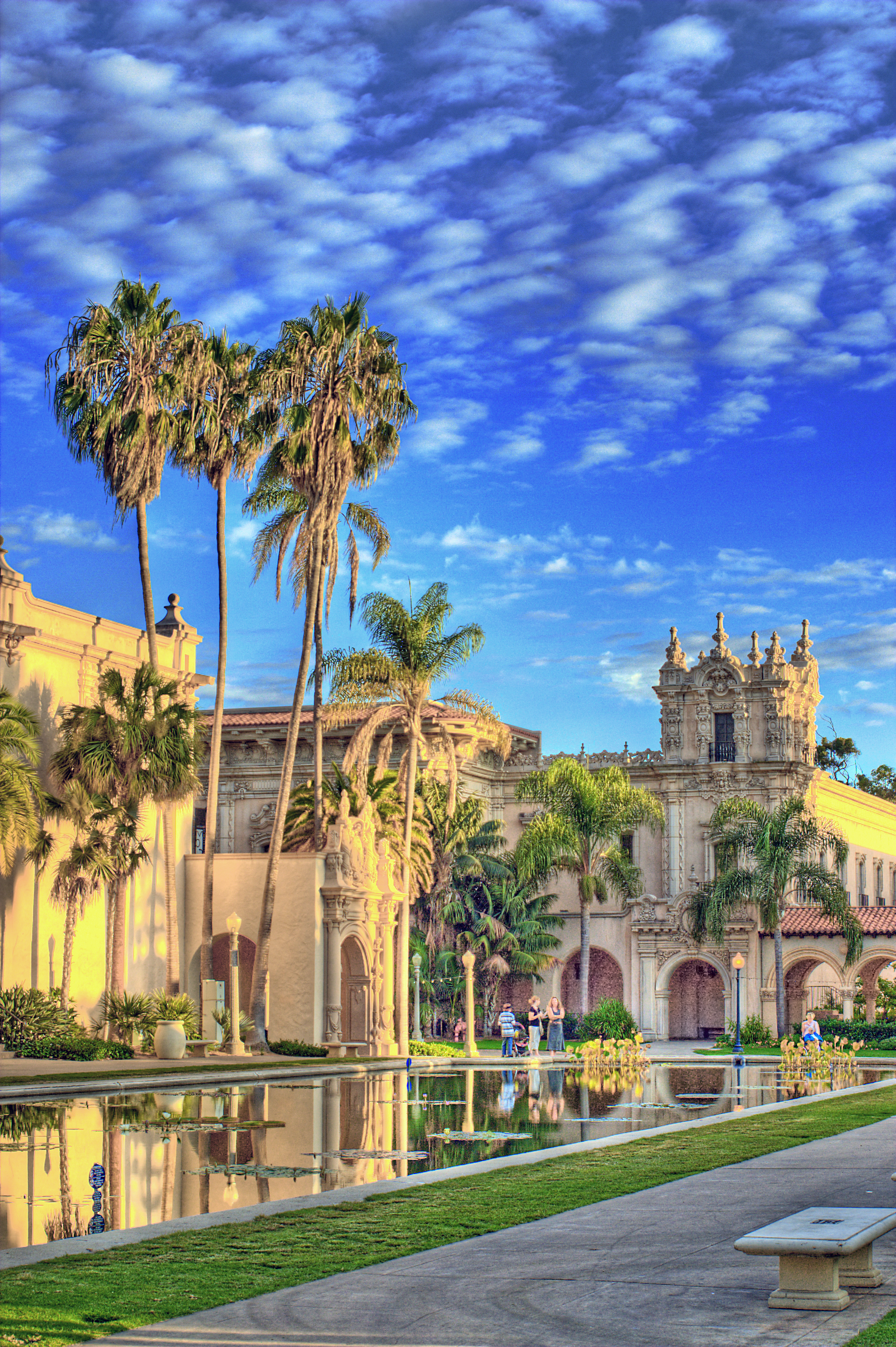 The museum in Balboa Park - San Diego, California